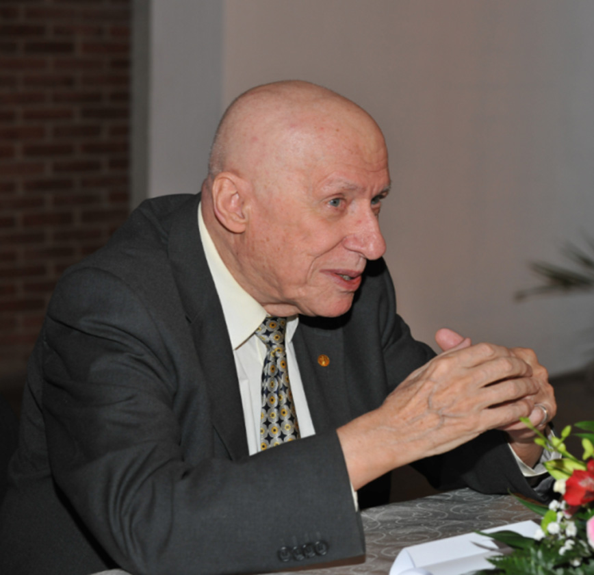 Ioan-Iovitz Popescu celebrated in 2012, on his 80th birthday, in the Aula Magna of the Faculty of Physics, University of Bucharest, 077125 Magurele, Romania